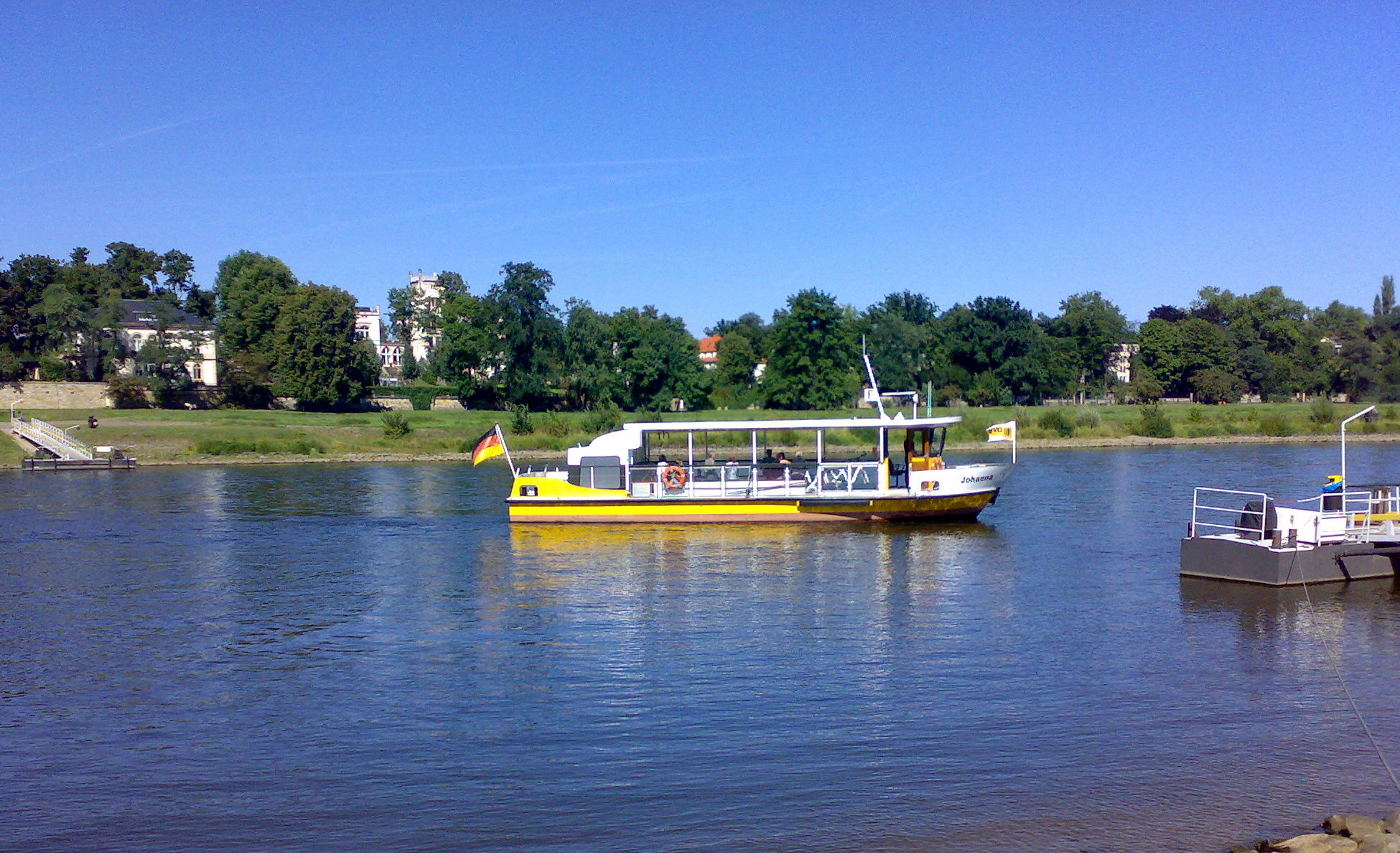 Ferry “Johanna” - Dresden Johannstadt - Radeberger Vorstadt